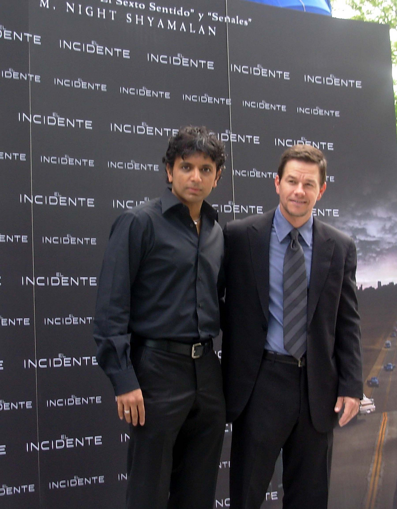 M. Night Shyamalan (left) and Mark Wahlberg (right) at the presentation of the film The Happening in Madrid (Spain).